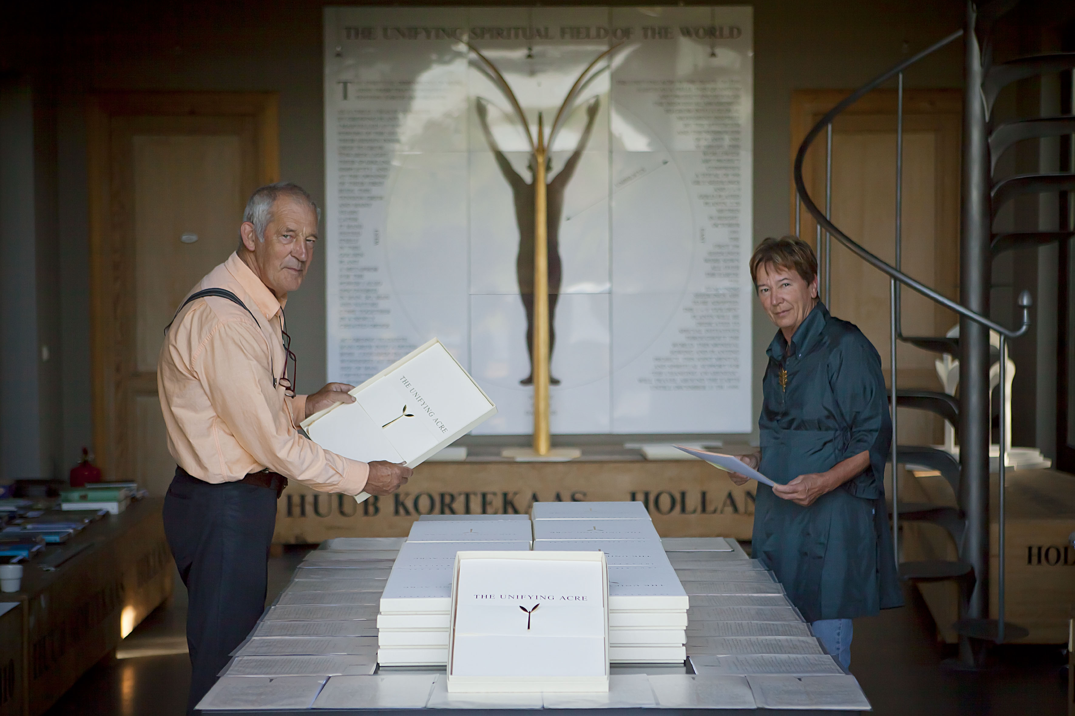 Adelheid & Huub Kortekaas